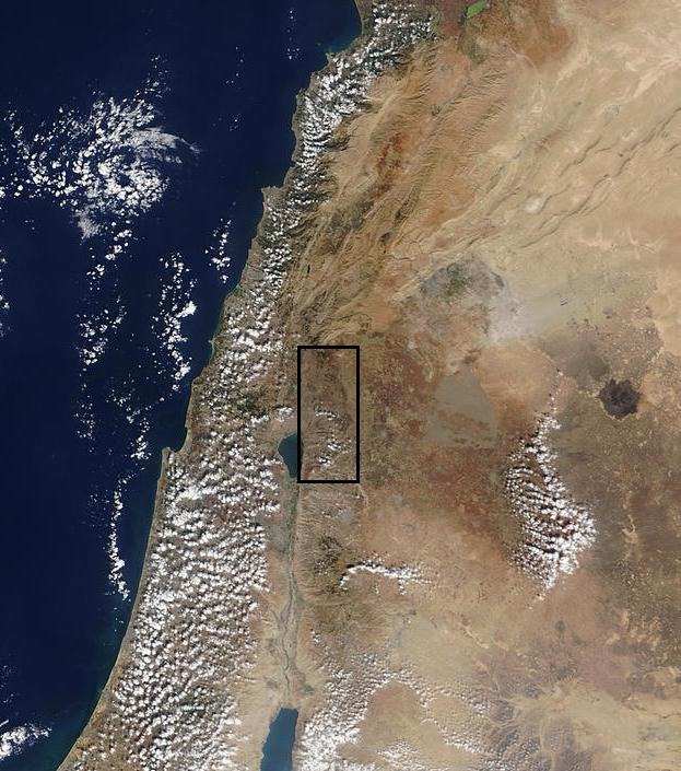 Location of Golan. I have modified the image by zooming in on the Golan and created a black rectangle around it.